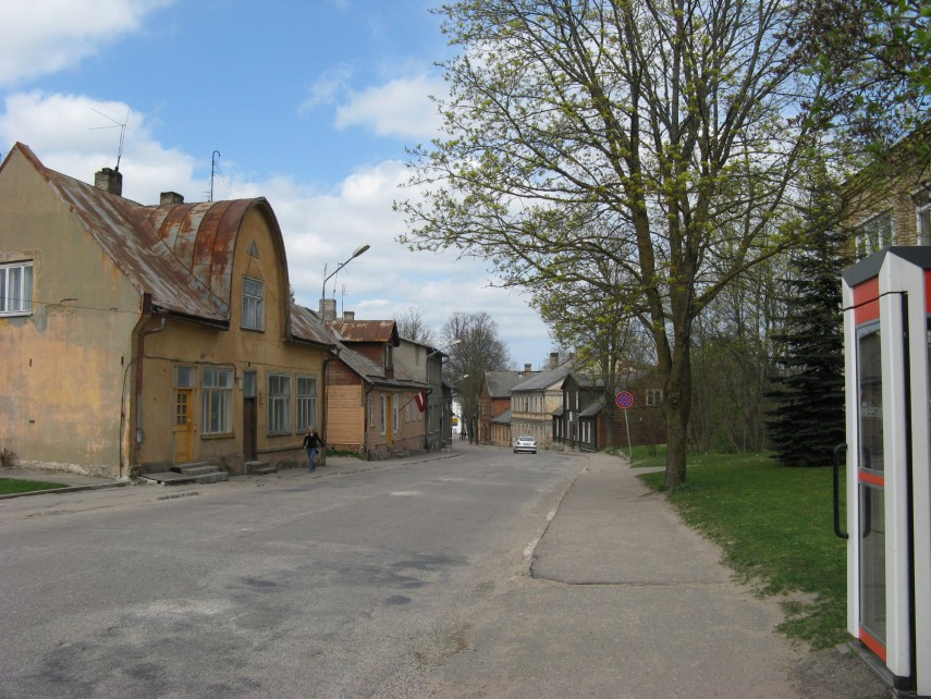 Valdemārpils, Lielā Street (road P126)